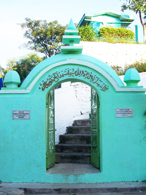 Gapura Makam Ki Ageng Pandan Arang